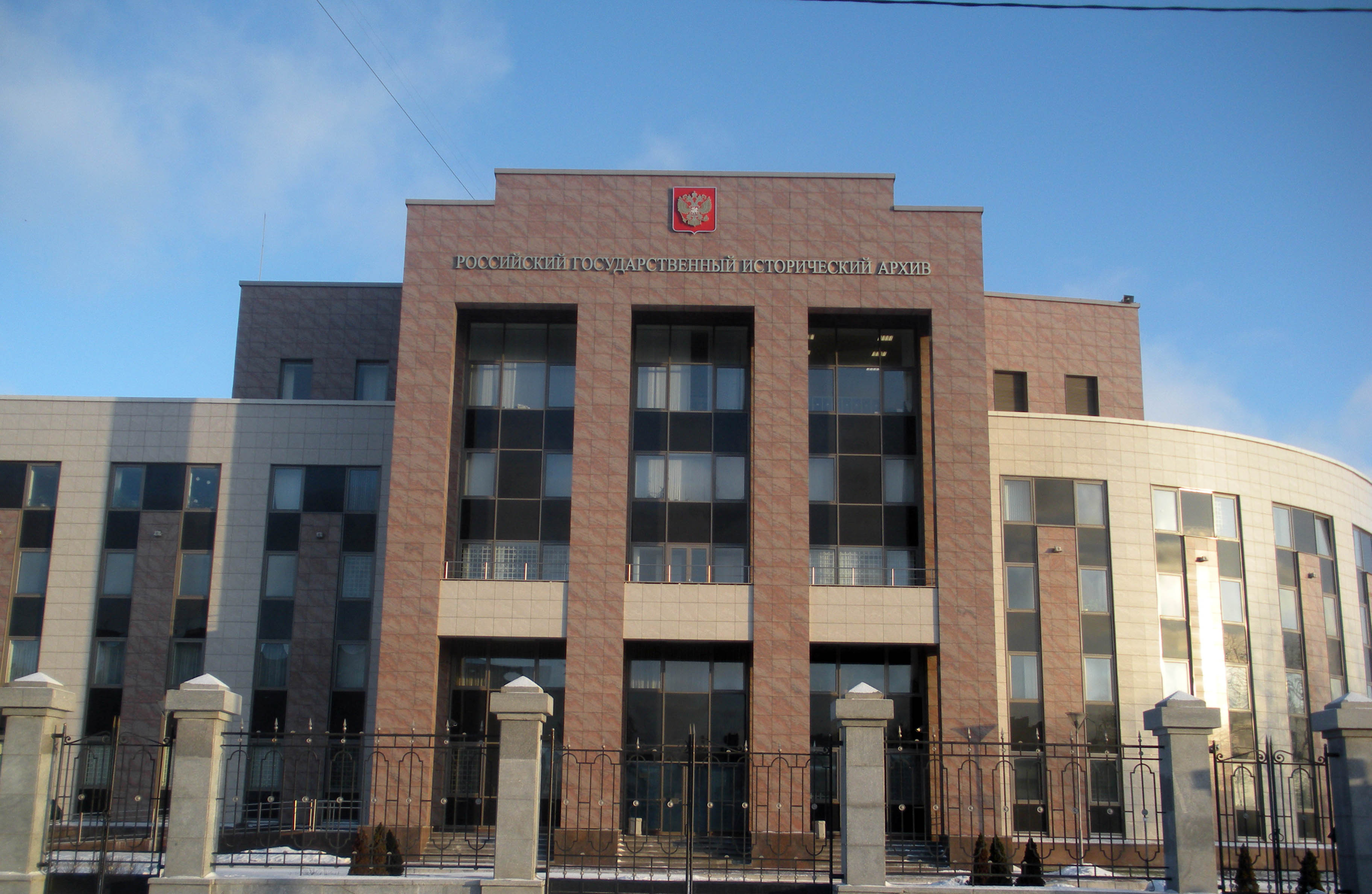 Russian State Archive of History